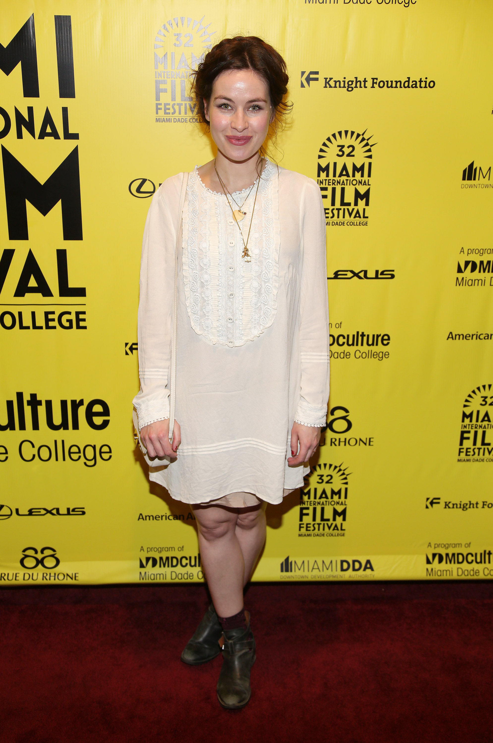 Maimie McCoy (Actress) on the red carpet for the film "Wild Tales" at the Miami International Film Festival